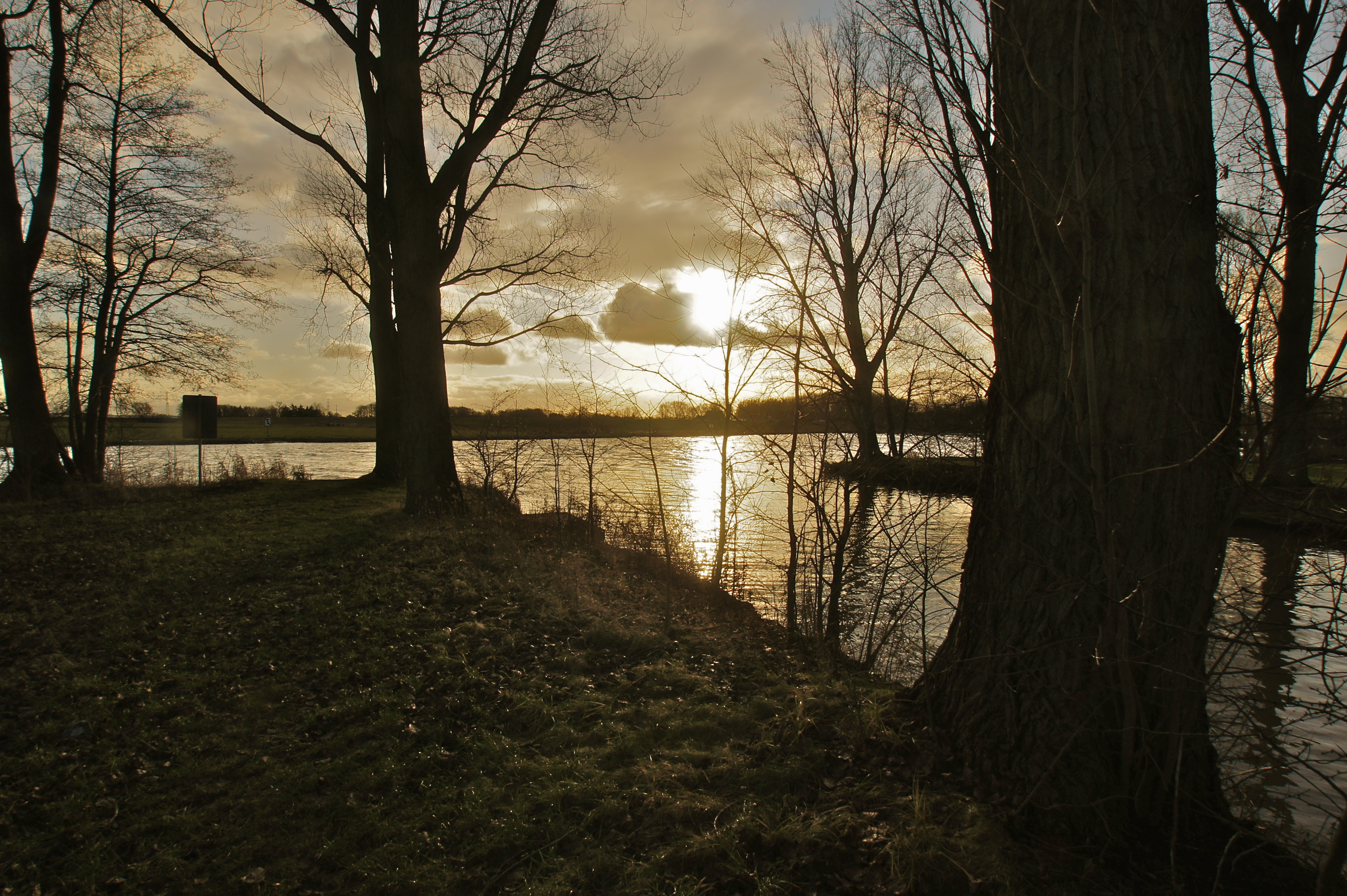 Hamburg (Allermöhe), Germany: Confluence of the Hauptentwässerungsgraben Allermöhe and the Dove Elbe